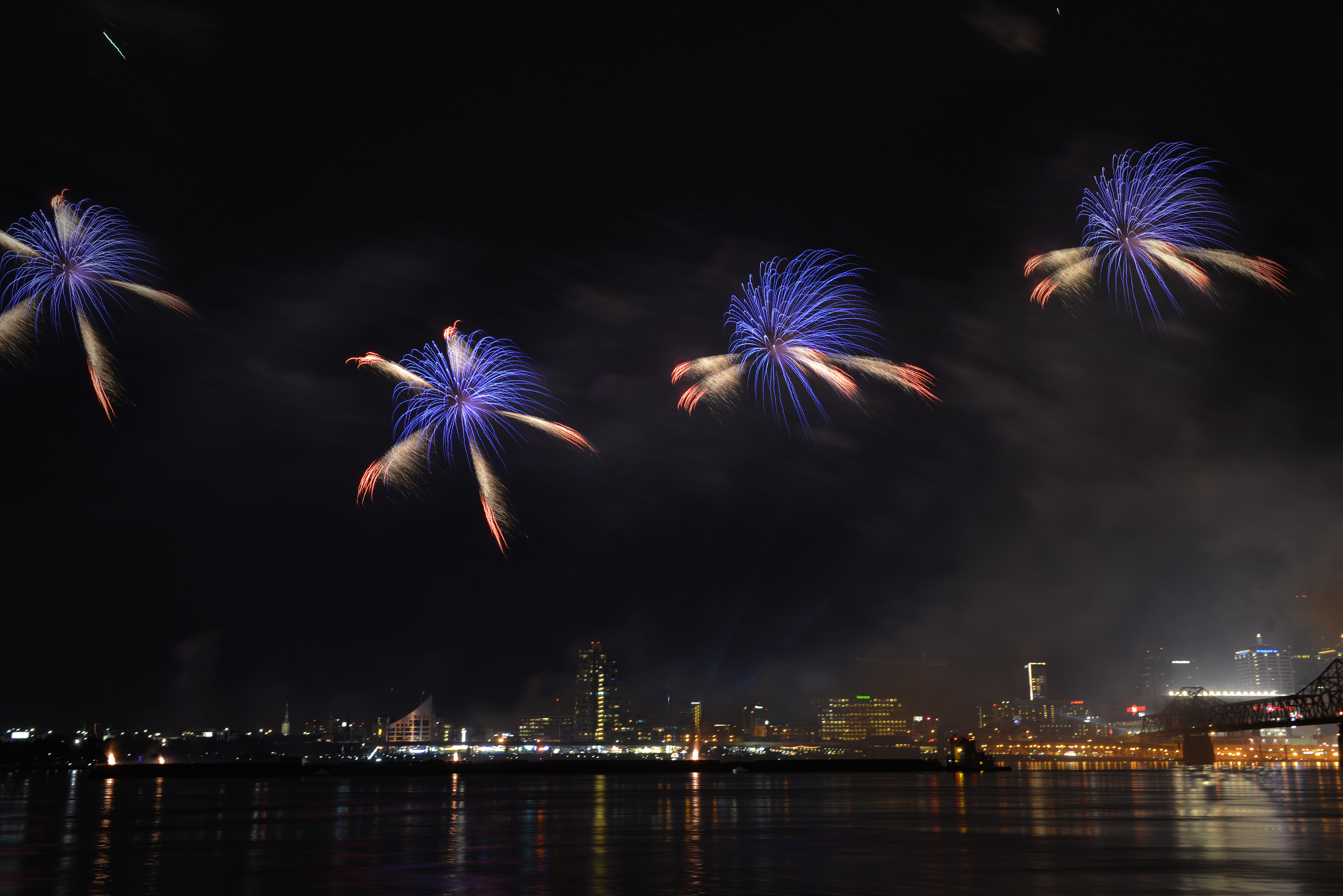 2018 show from the downstream side of the bridge on the Indiana shore of the Ohio River, Photo Credit : Aroun Kesavaraj